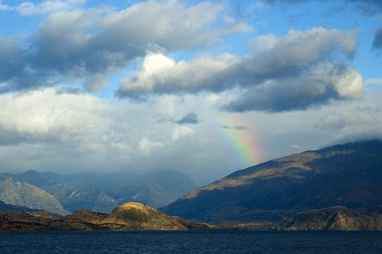 Image of Lake Wanaka, Queenstown Lakes District, Otago, South Island, New Zealand